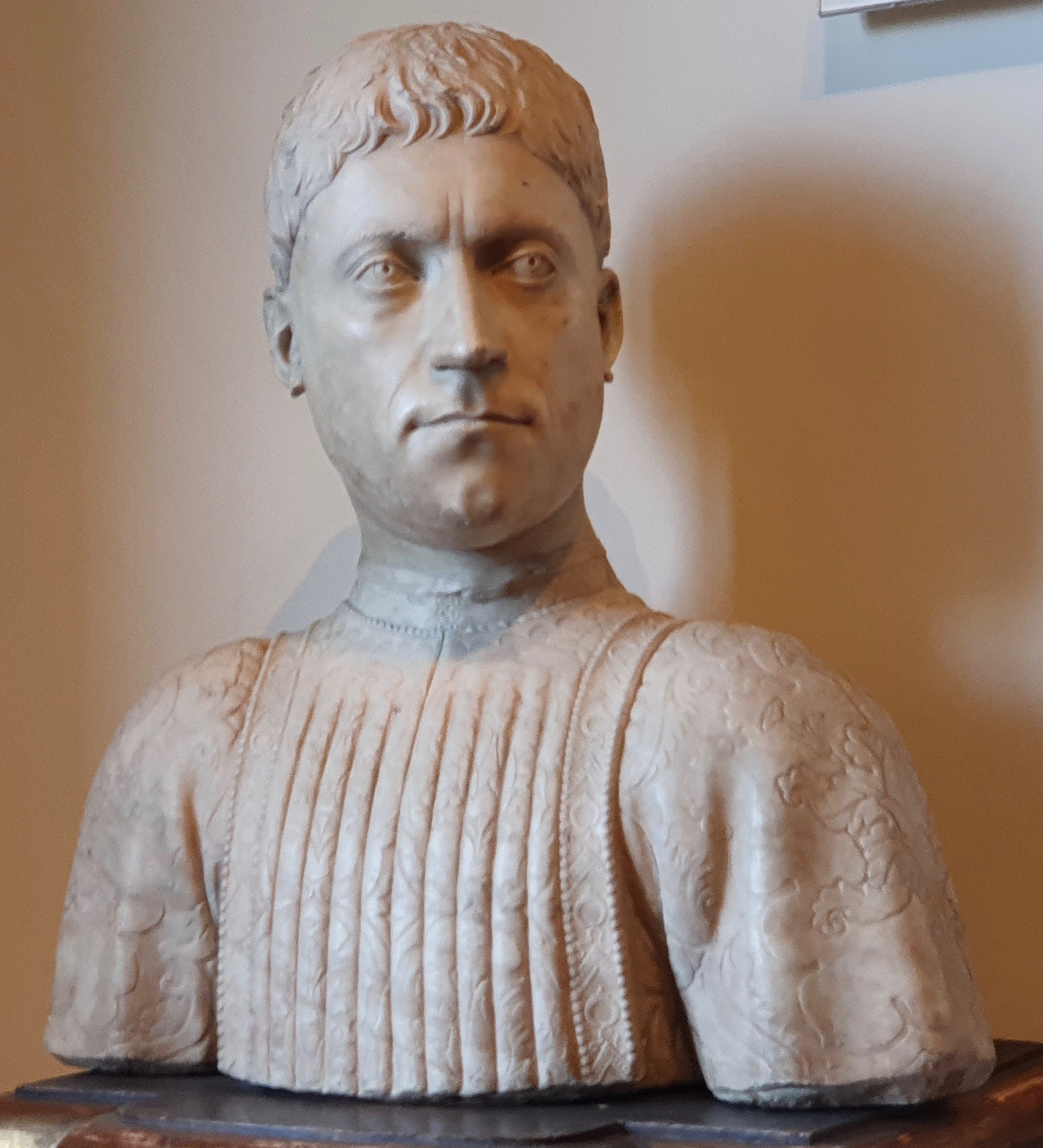 Medici Family: Piero, son of Cosimo, father of Lorenzo the Magnificent